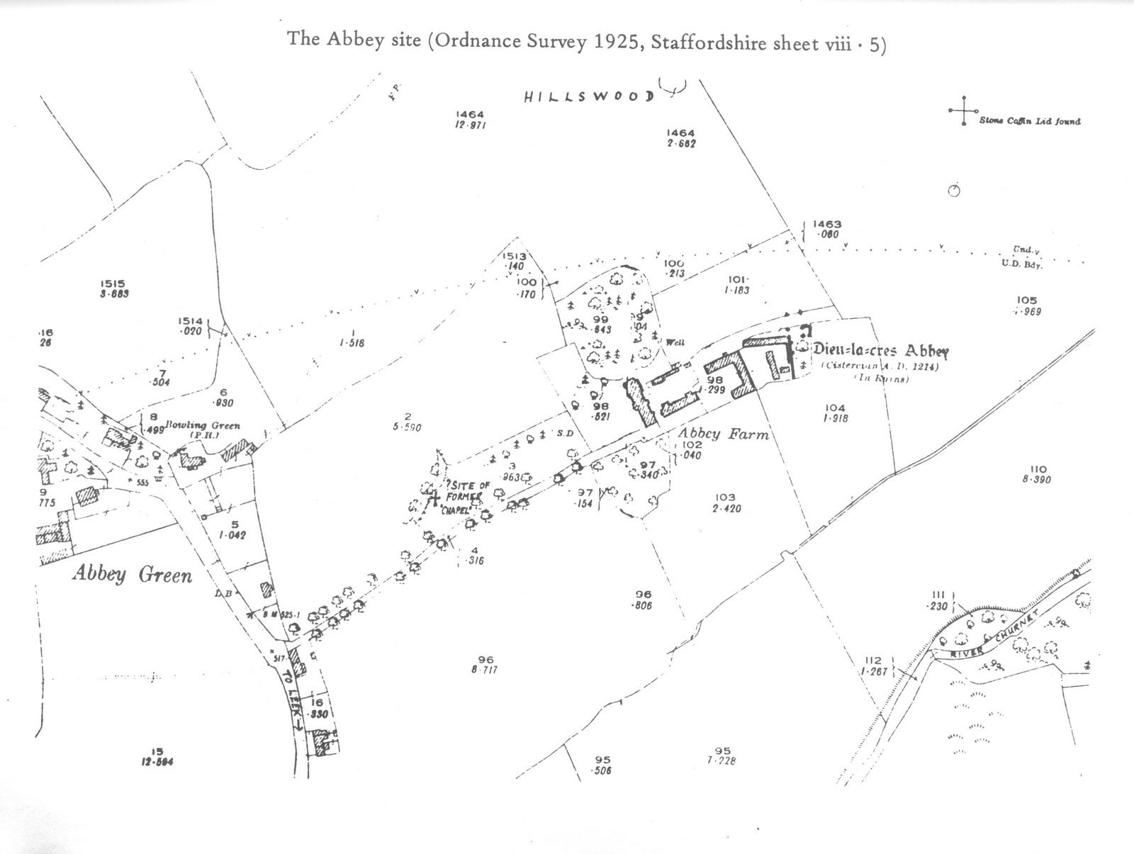 Map of former Dieulacres Abbey (Staffordshire) in 1925